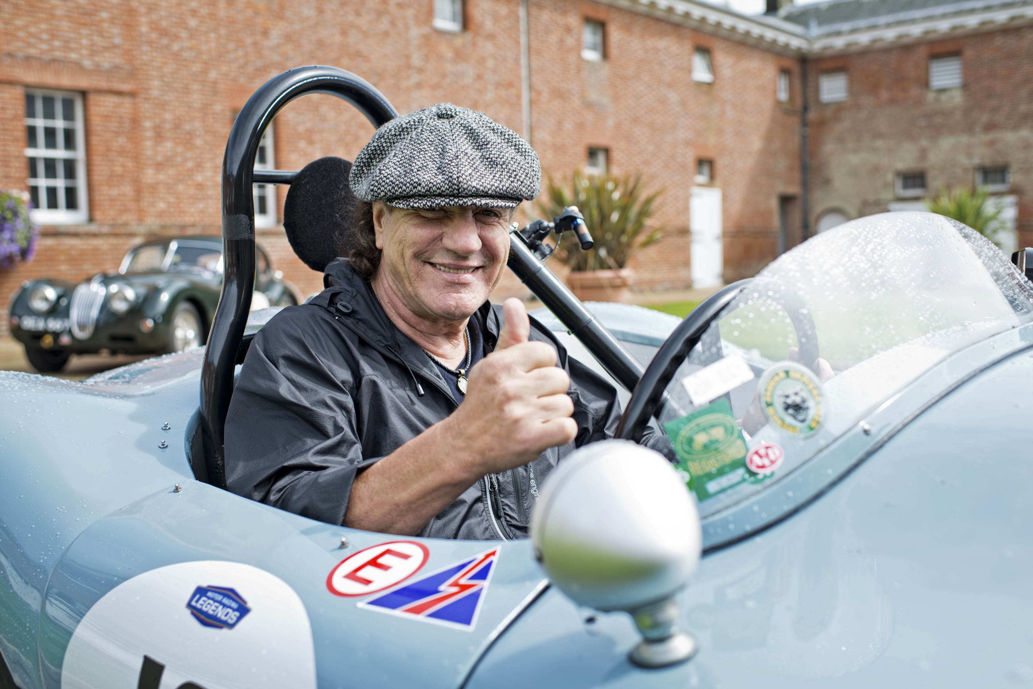 Expert motoring fans including Brian Johnson of rock band AC/DC, Goodwood's Lord March and Jaguar's Director of Design Ian Callum have chosen their 'perfect ten' - the most important and iconic Jaguar cars of all time. The list comes ahead of the worldwide reveal of Jaguar's all-new sports saloon, the Jaguar XE. Discover more